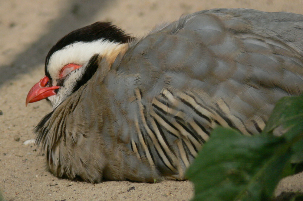 Alectoris melanocephala taken at the Tierpark Berlin, Germany